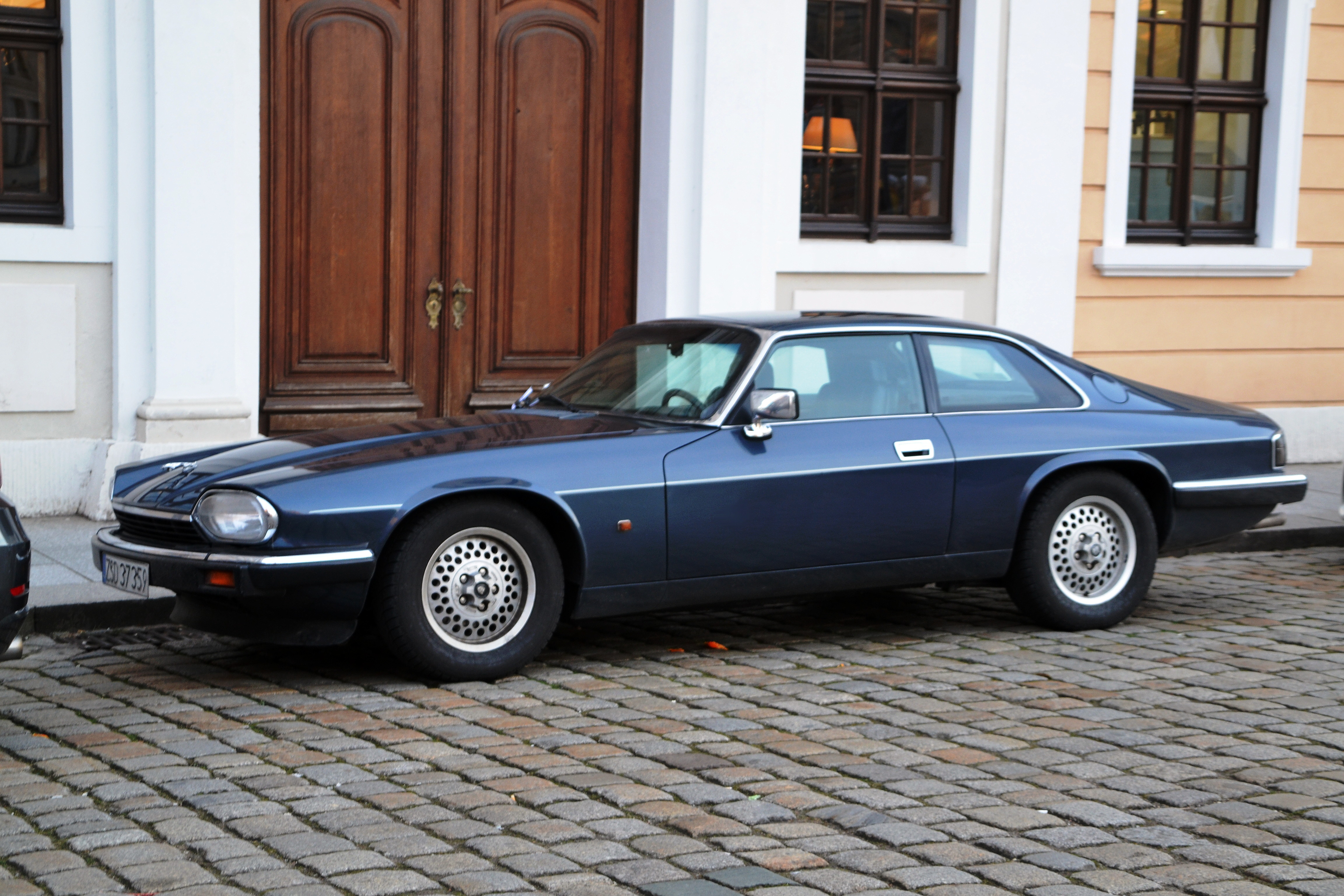 Jaguar XJS Series III, License plate modifyed